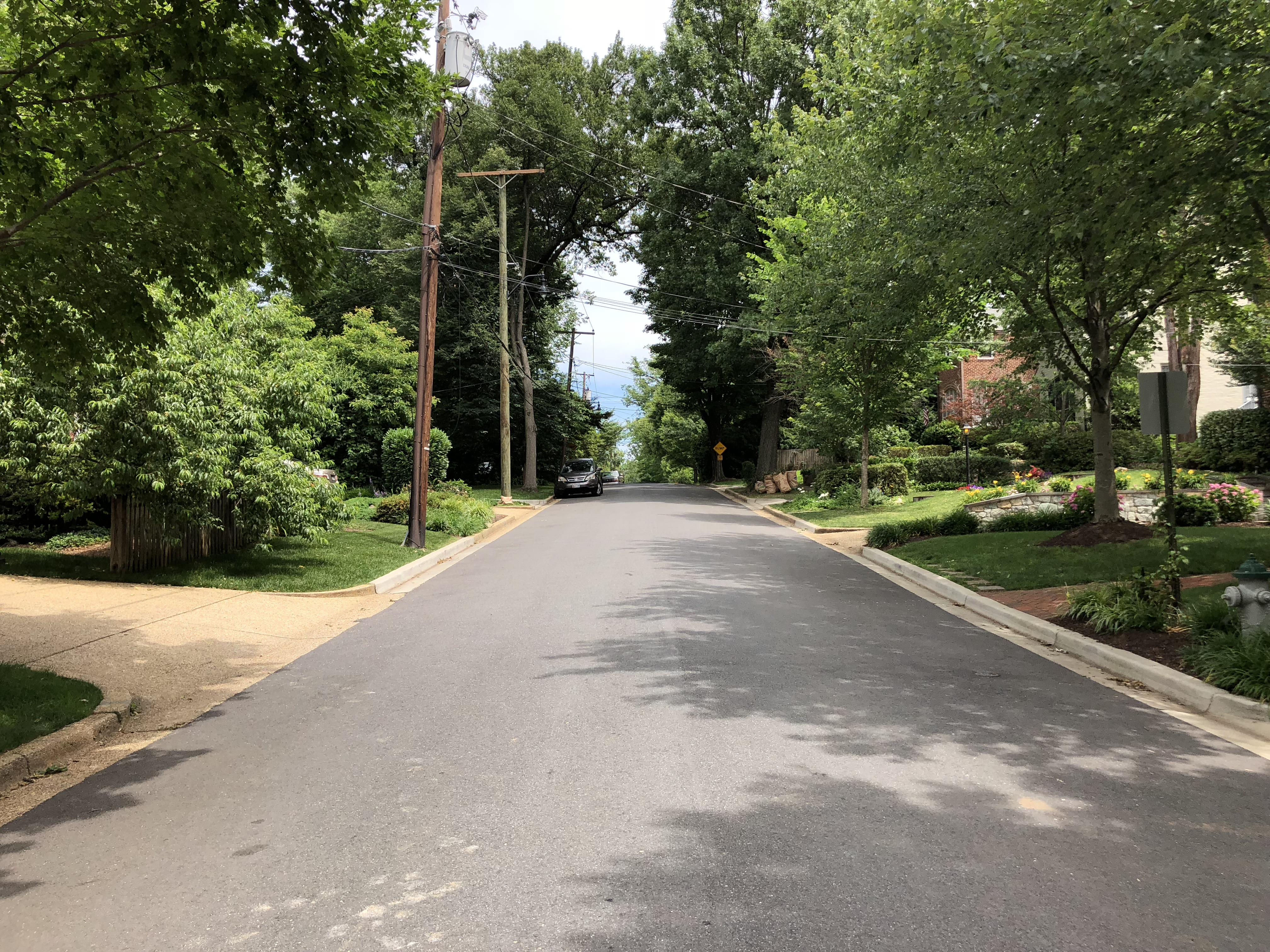 View north along Summit Avenue at Taylor Street in Martin's Additions, Montgomery County, Maryland